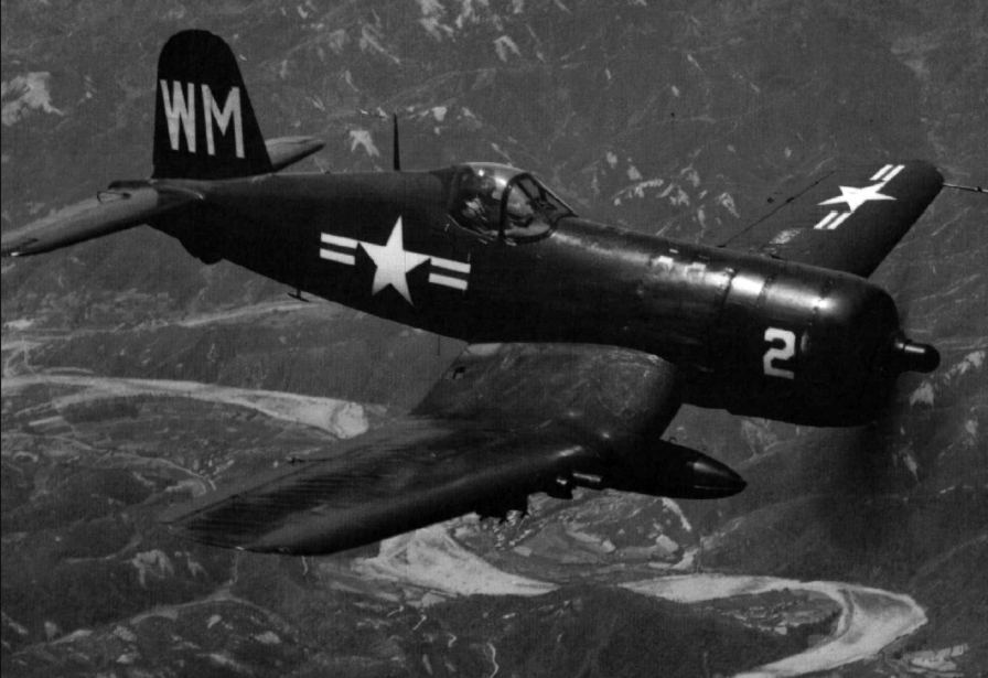 A U.S. Marine Corps Vought F4U-4 Corsair from Marine headquarters squadron (Hedron) 33 returning from a combat mission in Korea.